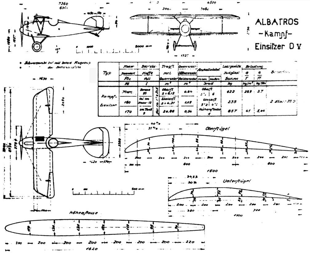 Albatros D.V German World War 1 single seat fighter